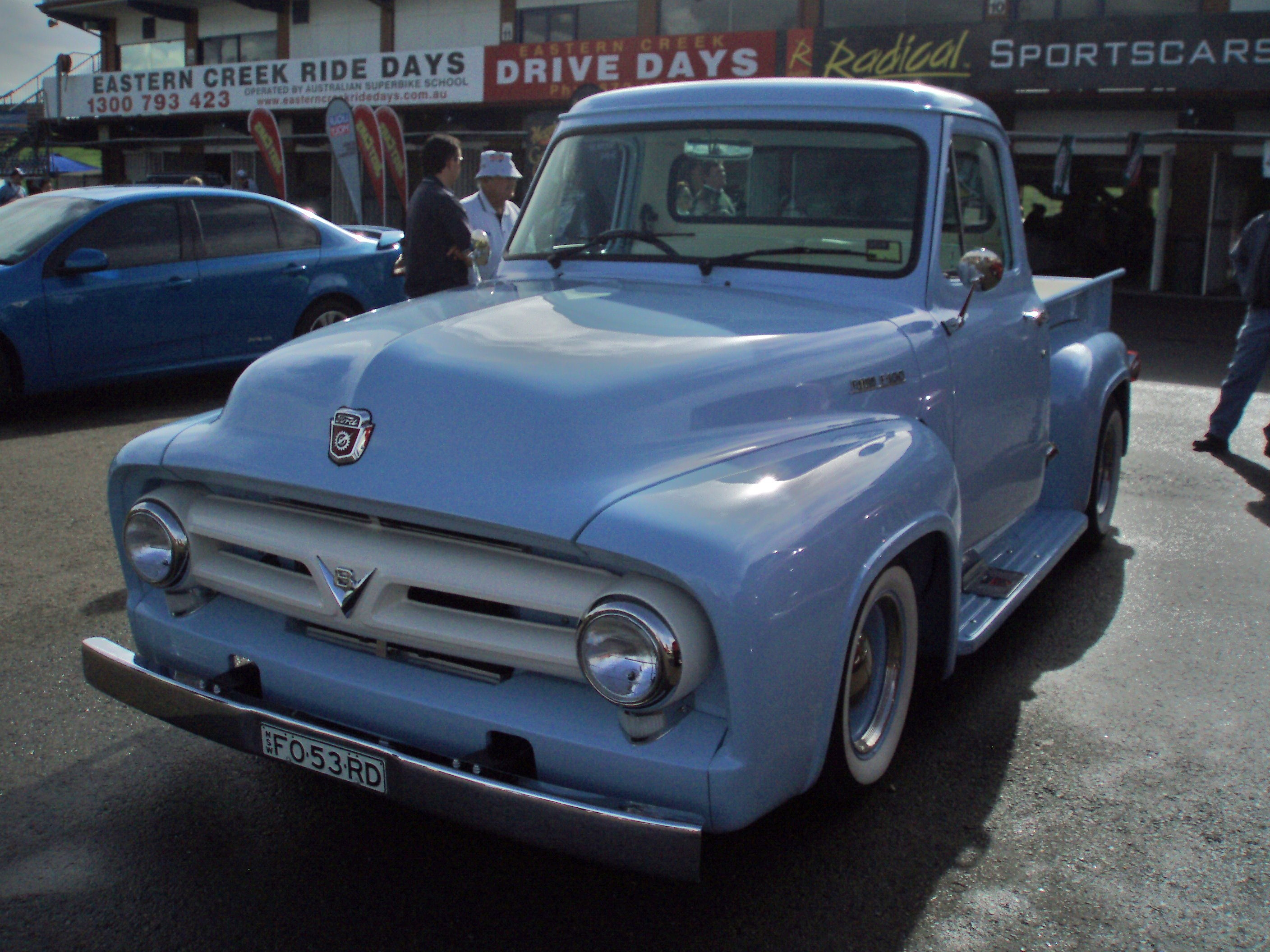 1953 Ford F-100 ute. Taken at the New South Wales All Ford Day 2009, held at Eastern Creek Raceway Sydney.